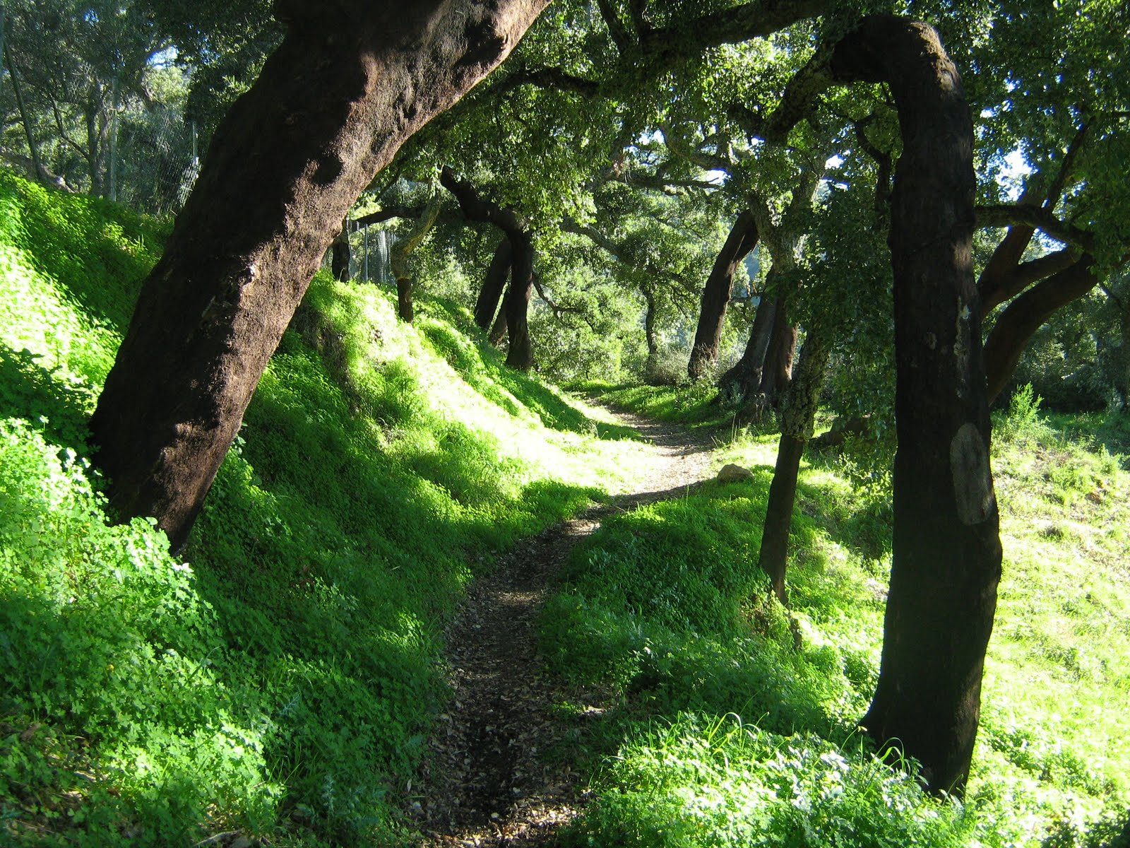 benarraba